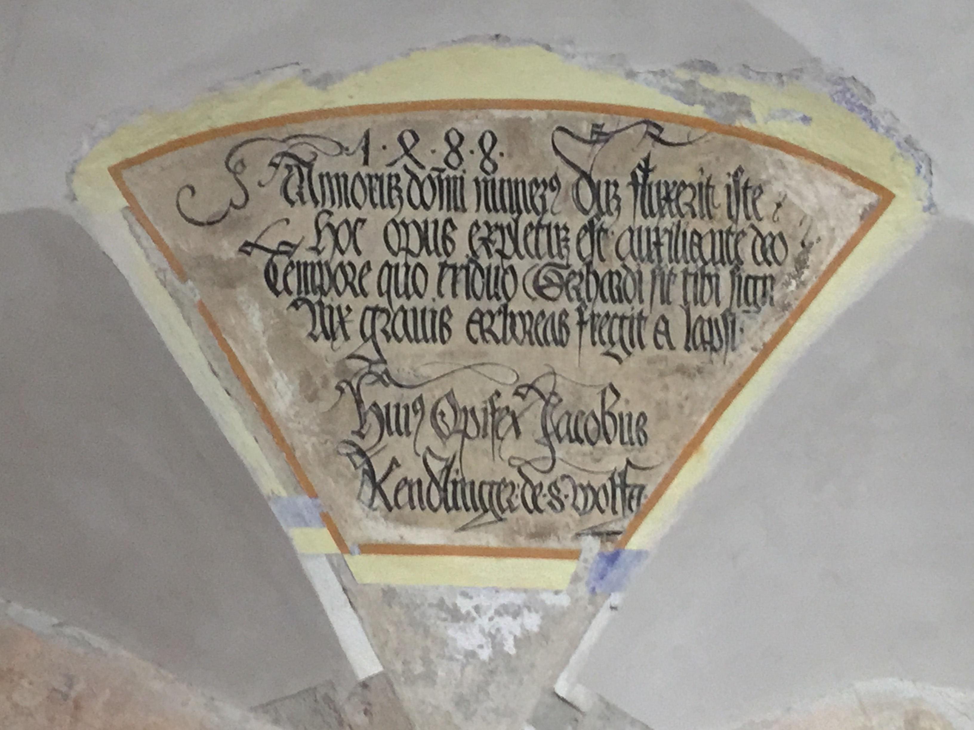 Inscription in the Church on the Hill, Sighisoara, Romania. Vault of the ground floor of the bell tower. The inscription commemorates the completion of the building in 1488 by Jakobus Kendlinger from St. Wolfgang.